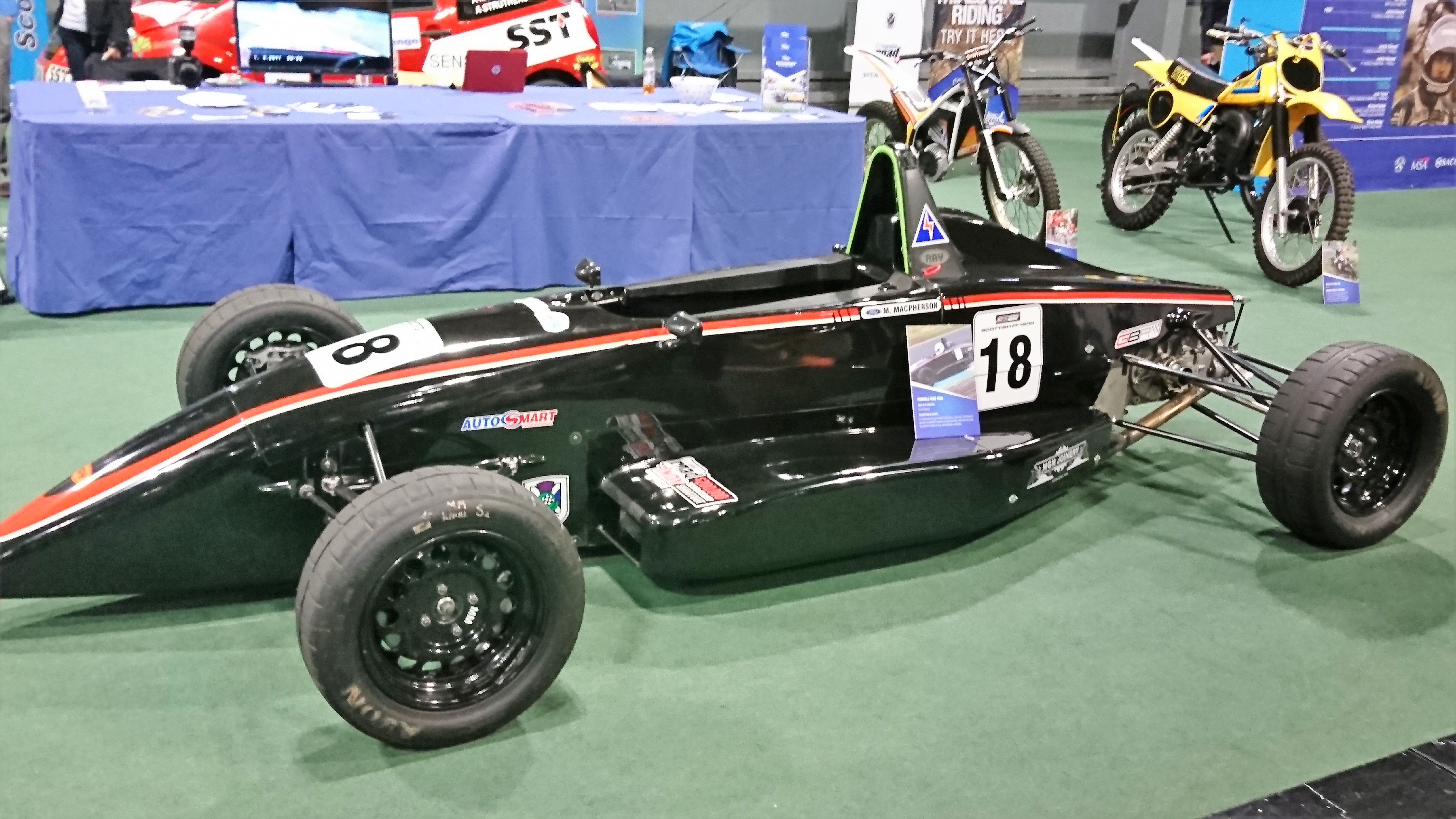 Michael Macpherson's Ray GR14 Scottish Formula Ford Championship car, pictured at the Ignition Festival of Motoring - held at the Scottish Event Campus - on 5 August 2017.